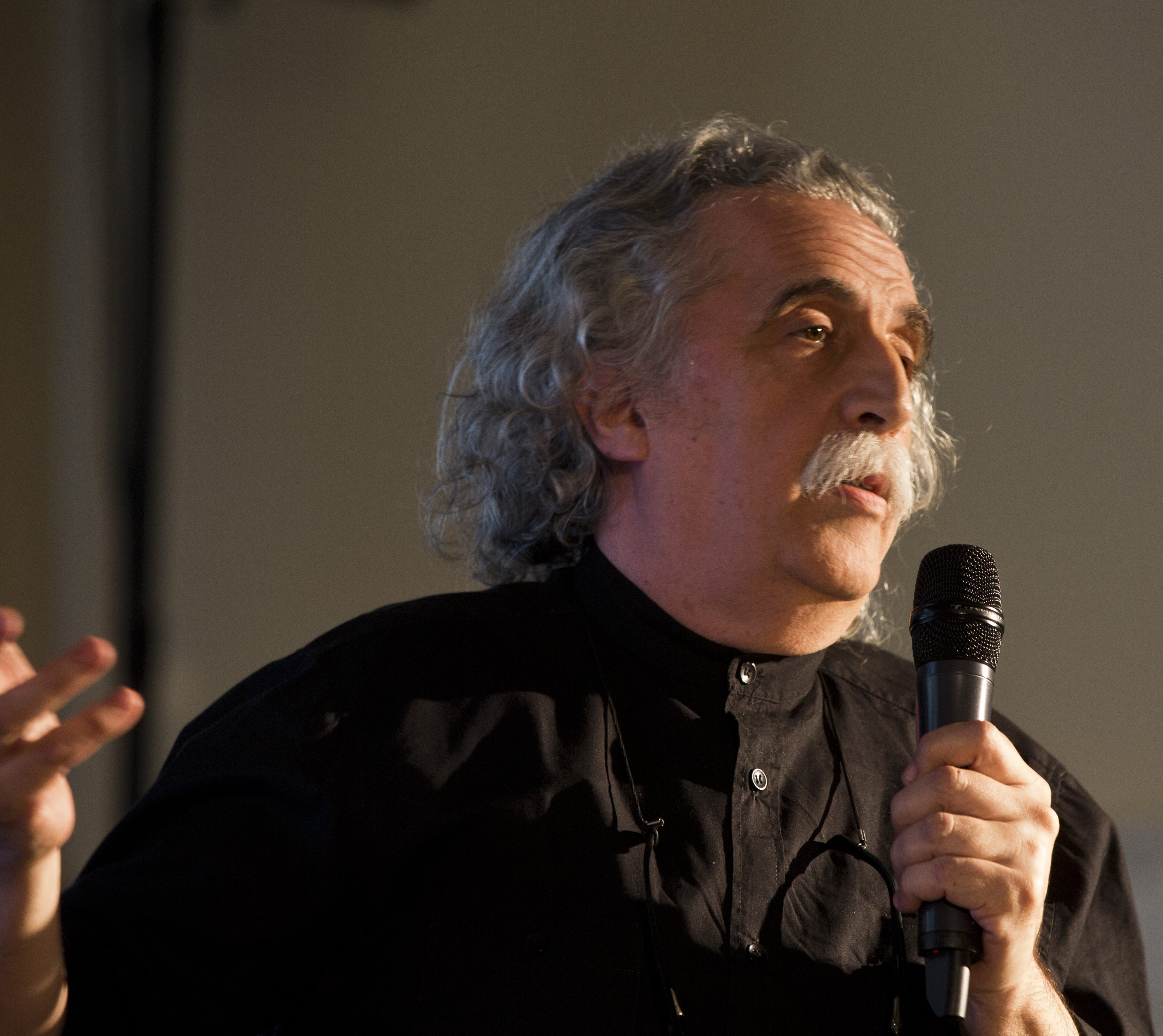 Daniel Santoro, artista plástico argentino. Buenos Aires, 20 de noviembre de 2015 - Encuentro Sur Global, hacia la Bienal de UNASUR en el Museo Hotel de los Inmigrantes. Mesa "Arte, historia e imaginarios" Diálogo entre Daniel Santoro (artista argentino) y Alicia de Arteaga (crítica de arte). Fotos: Mauro Rico / Ministerio de Cultura de la Nación